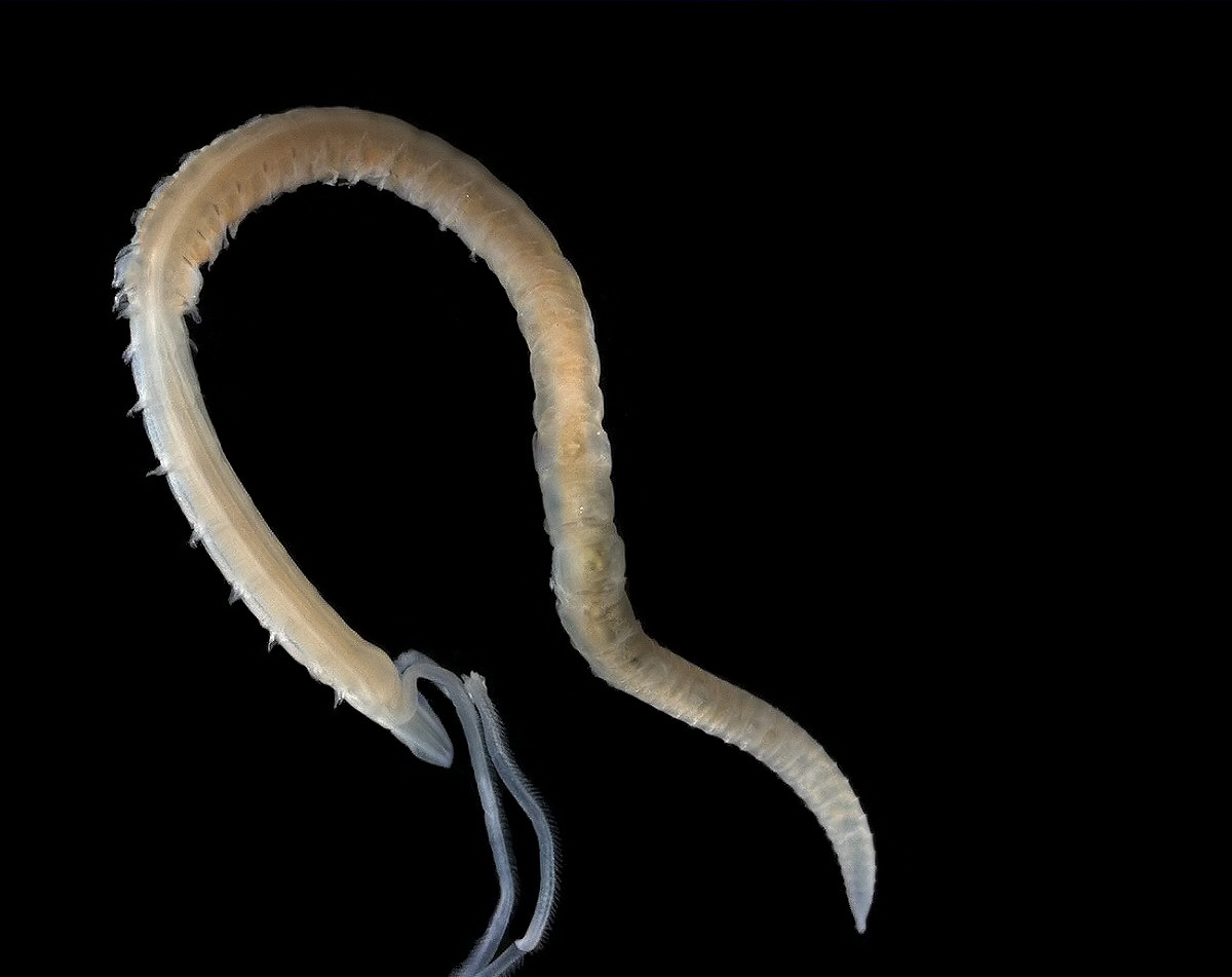 A digging polychaete with a characteristic flattened head with two long palps, from a sandy sediment on the Belgian continental shelf.Lab photograph of a preserved specimen.